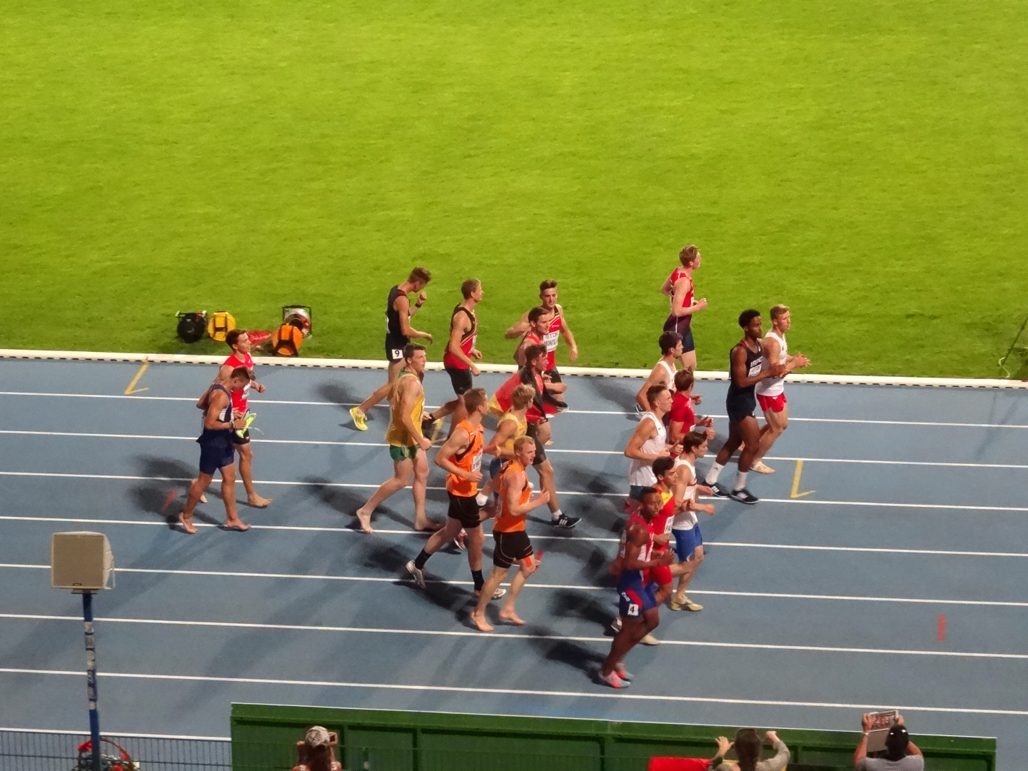 2016 IAAF World U20 Championships in Bydgoszcz, decathlon men 1500 m